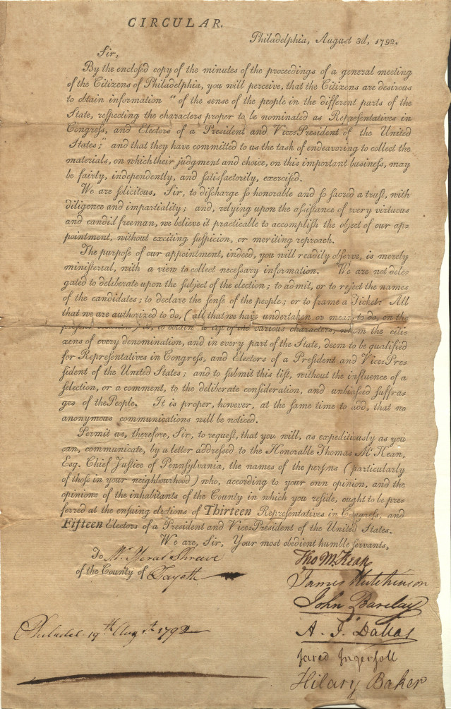 Printed circular letter to Colonel Israel Shreve, signed by Thomas McKean, James Hutchinson, John Barclay, A.J. Dallas, Jared Ingersoll, and Hilary Baker, on August 3, 1792. Thomas McKean was also a signer of the Declaration of Independence and Governor of Pennsylvania.